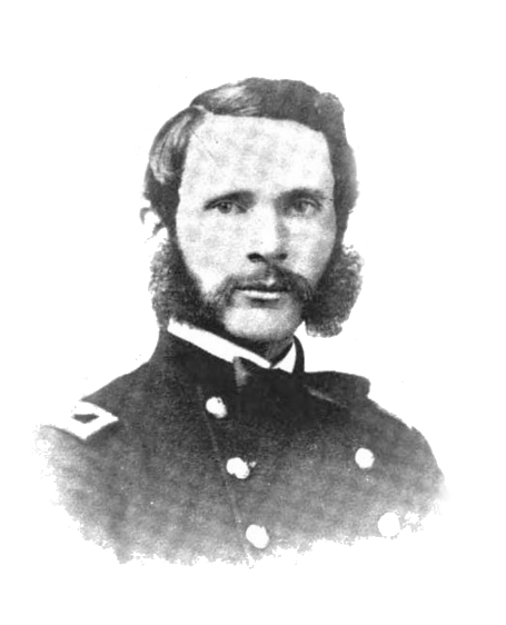 "Colonel Patrick Henry O'Rorke, U.S. Volunteers." from New York State Historian (1897) Annual report of the State Historian , Volume 1, Wynkoop, Hallenbeck Crawford Co., State Printers, pp. 63